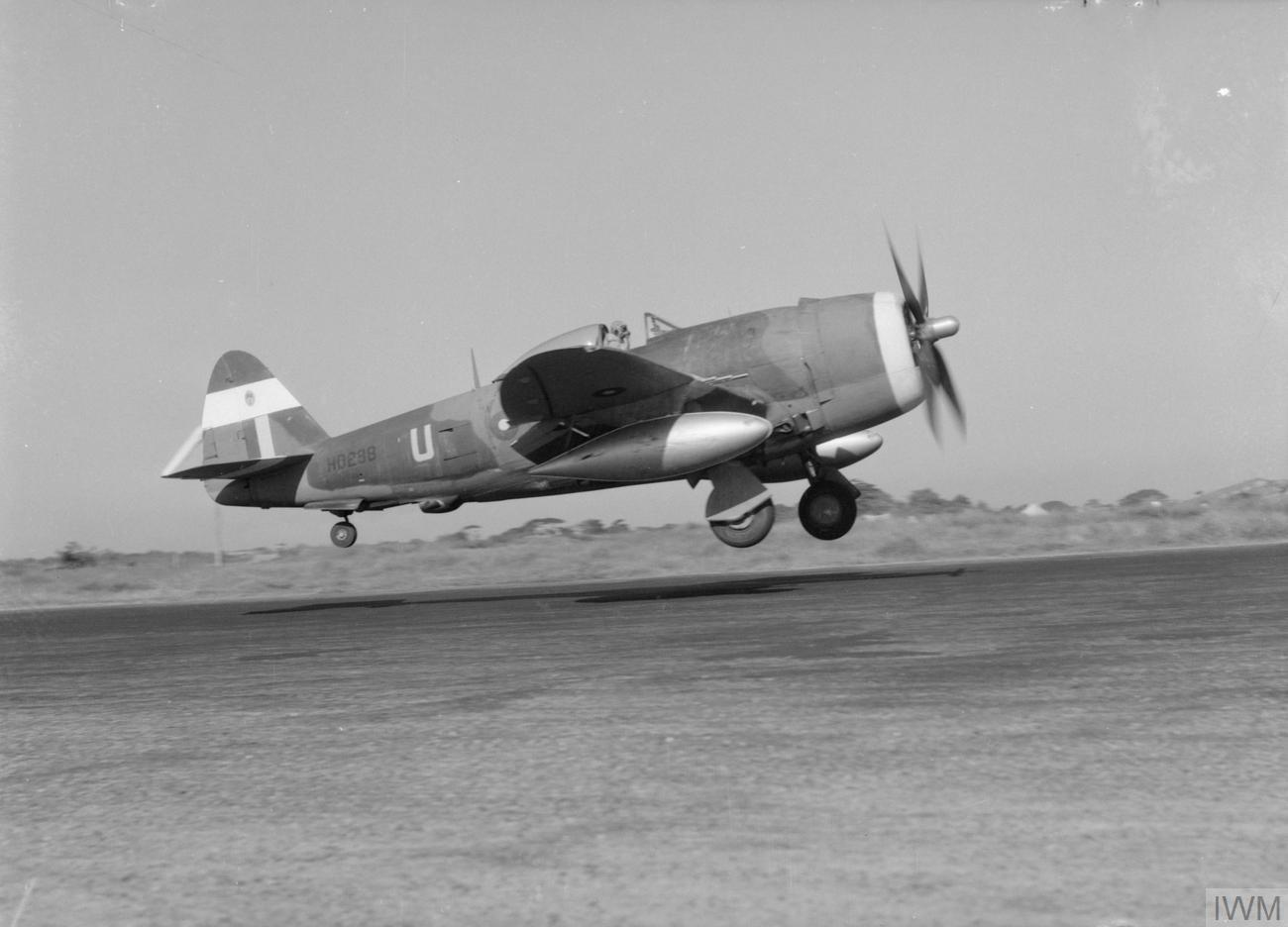 American Aircraft in RAF Service 1939-1945- Republic Thunderbolt. Thunderbolt Mark II, HD298 ‘RS-U’, of No. 30 Squadron RAF, taking off off from Chittagong, India, for a sortie over the Arakan front.